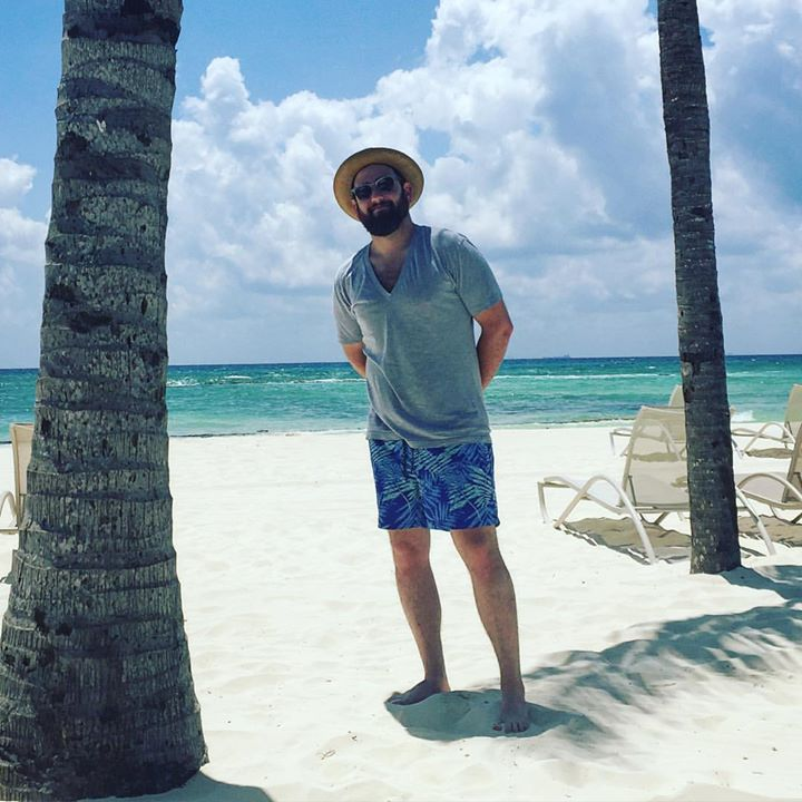 This is Ross Golan at the beach.